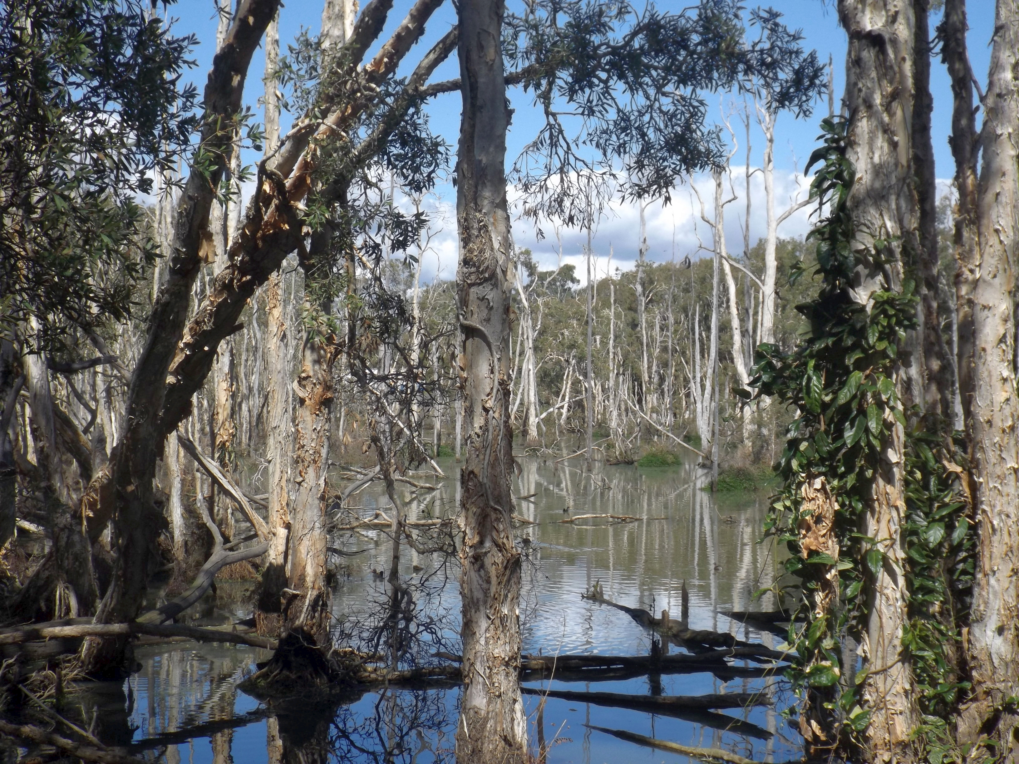 Photo of Black Duck Creek Murumba Downs, Moreton Bay Region, Queensland, Australia.